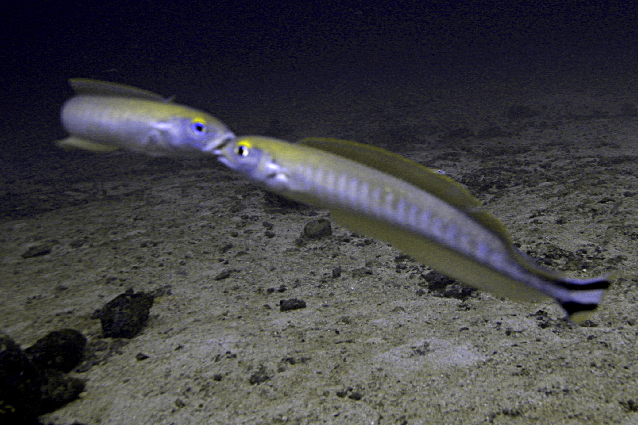 Jaws locked in ritual combat, these two tilefish square off in a dispute over territory. Photographed near Isla Canales de Afuera - inside the protected waters of Coiba National Park, Panama.